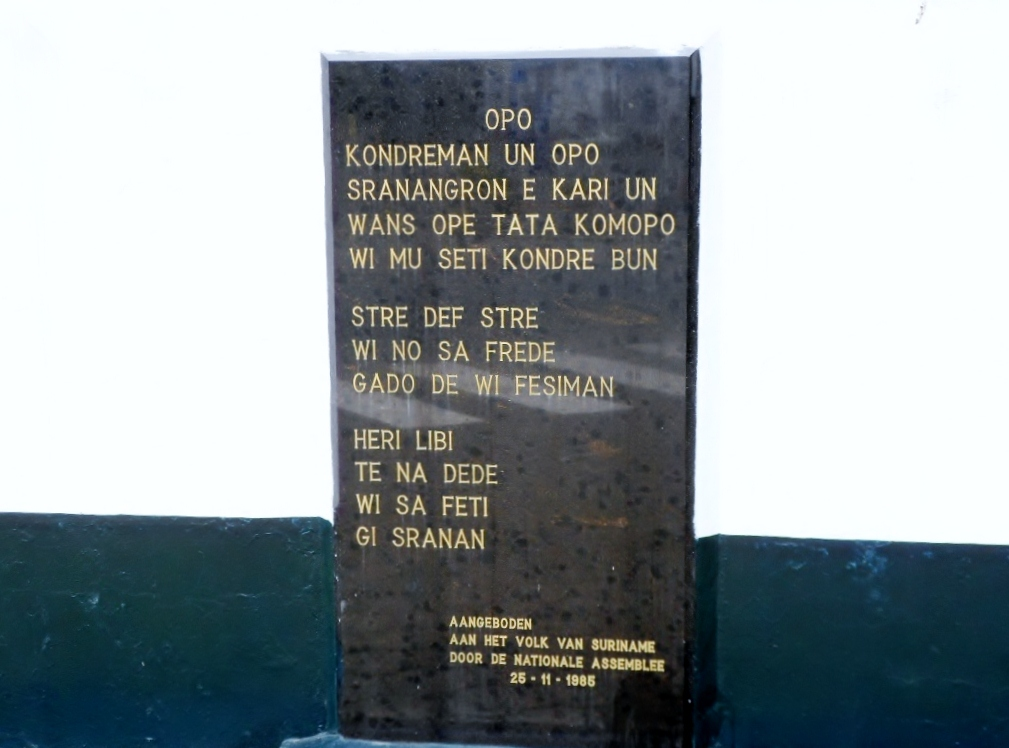 Opo Kondreman, the stone-carved national anthem in front of the National Assembly, Paramaribo, Suriname